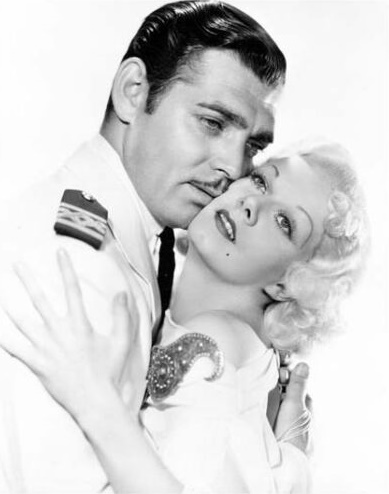 Clark Gable & Jean Harlow in American adventure film China Seas (1935). See also film still. No copyright notice.